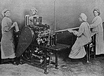 Partnership «B. Vysotsky and Co.».